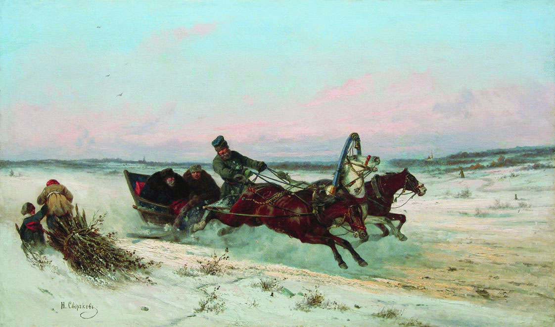 Troyka in Winter